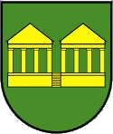 Coat of arms of Nehren